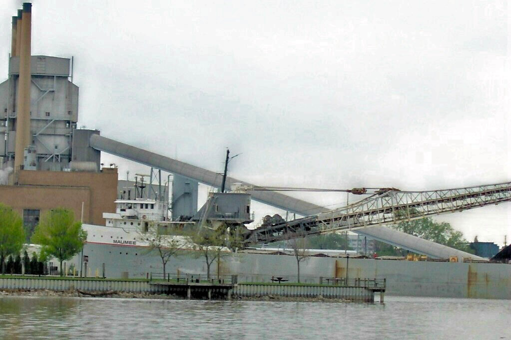 MV Maumee, built 1929, previously called William G. Clyde and Calcite II, unloading in Holland, Michigan. As of 2010, it was the second-oldest operating lake freighter (the oldest is the 1906-built St Mary's Challenger) Scrapped 2011 James De Young Power Plant was built in 1939, and is the main power supply for the city of Holland. Units 1 and 2 are no longer used, Unit 3 was built in 1953, Unit 4 was built in 1961 and Unit 5 was built in 1968.